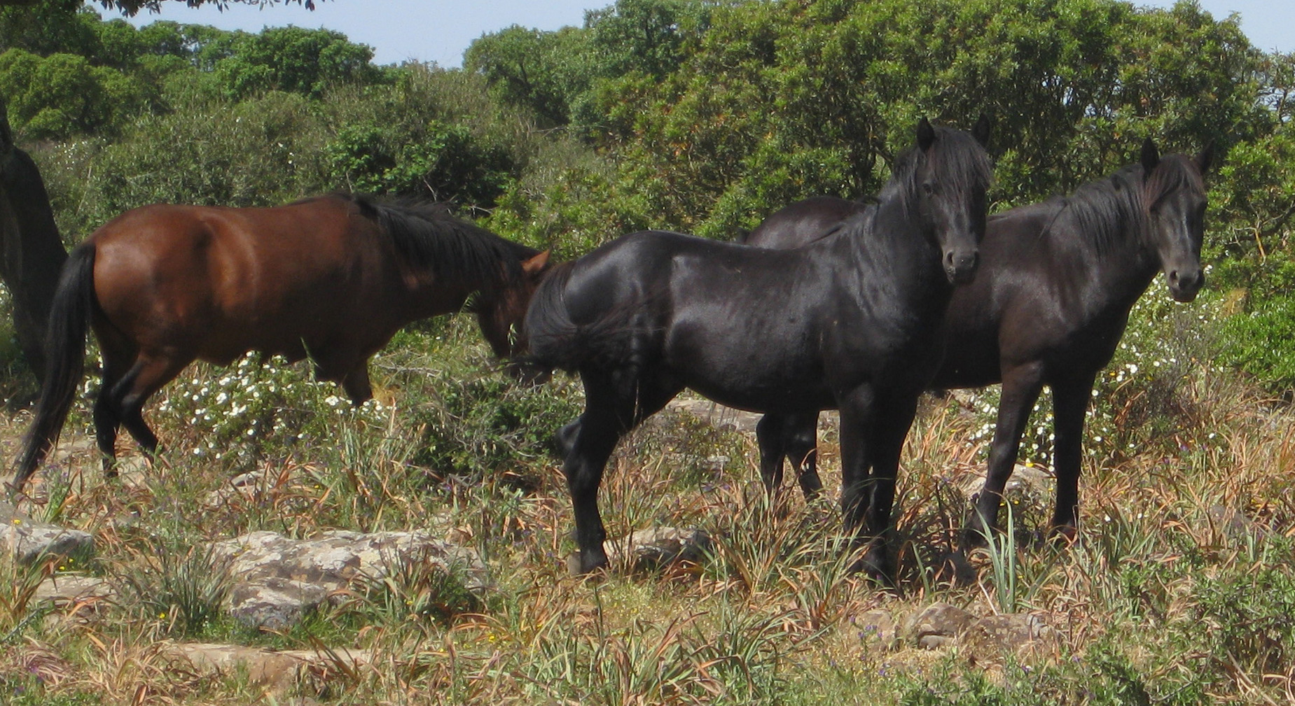 Giara horses